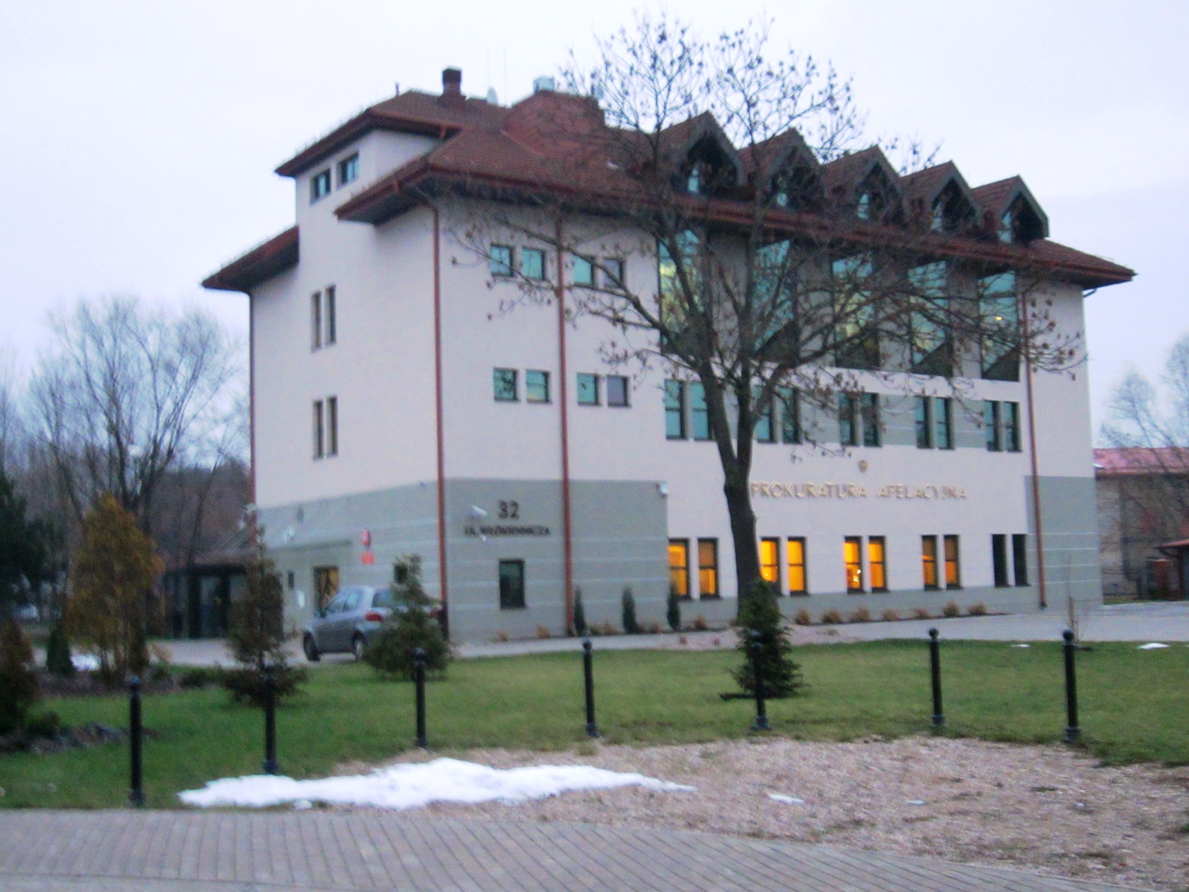 Building of Prosecutor's Office in Białystok, Włókiennicza 32 street.